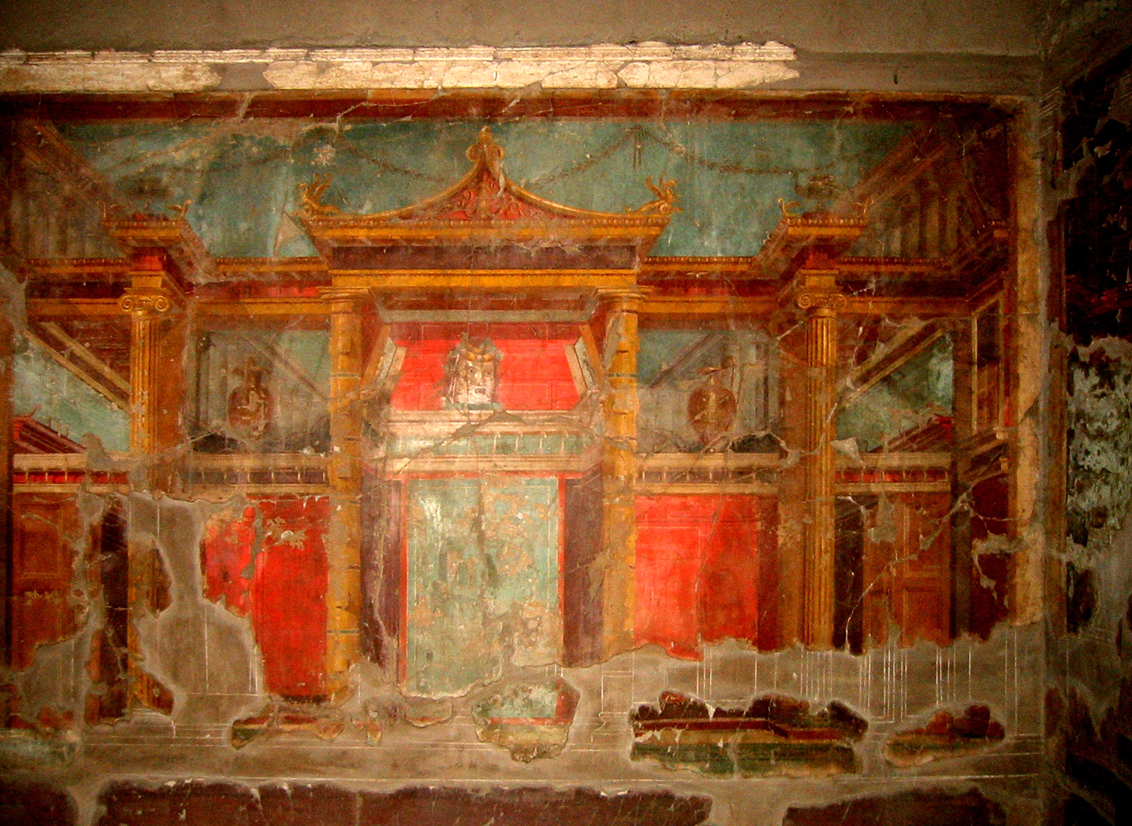 The photo was taken at the excaveted Villa in Oplontis, the modern Torre Annunziata near Naples in Campania, Italy. It shows one wall of room 8.